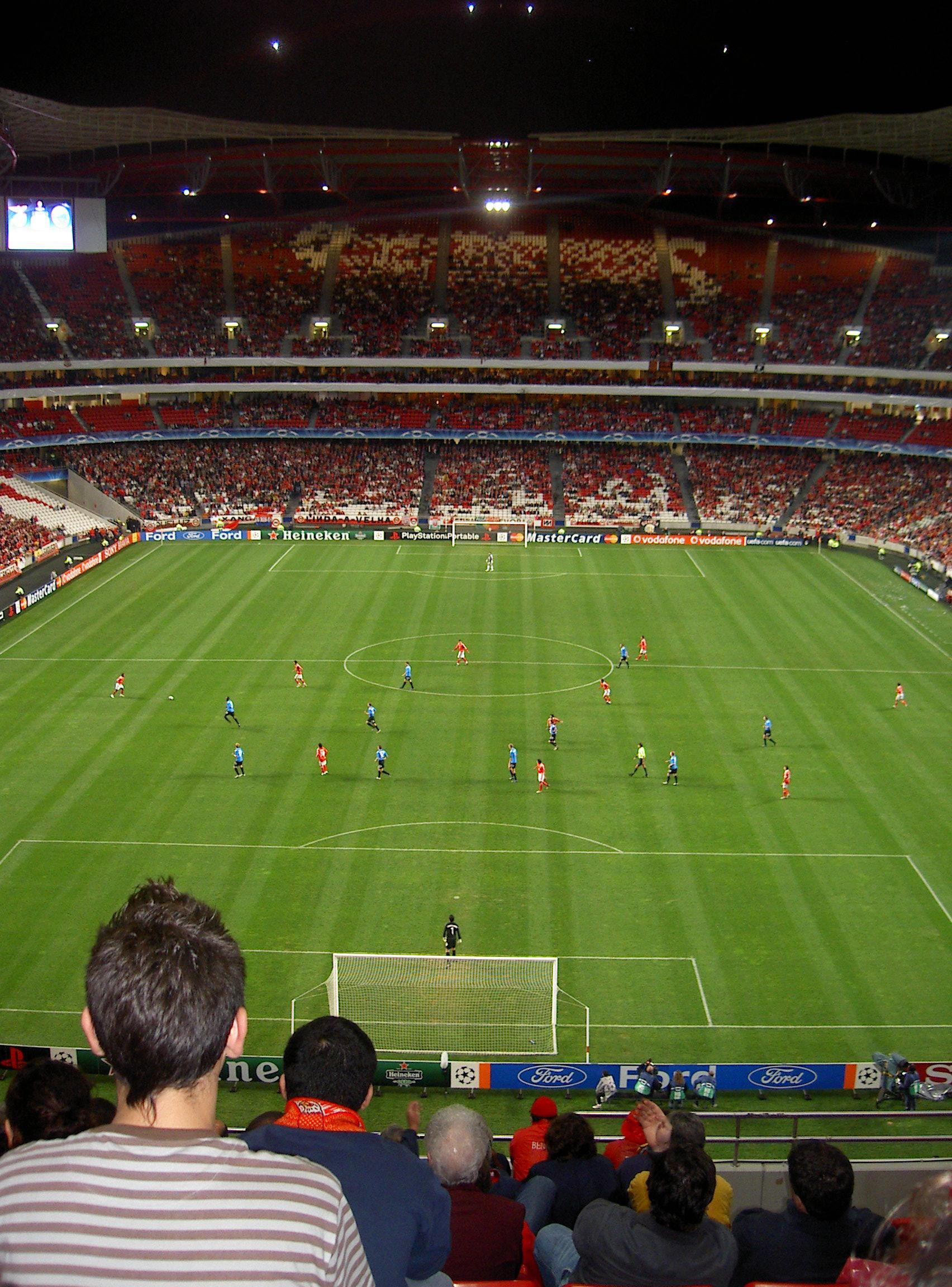 Champions League match. SL Benfica 3 - 1 FC København. 21-nov-2006.Benfica vs. Copenhagen